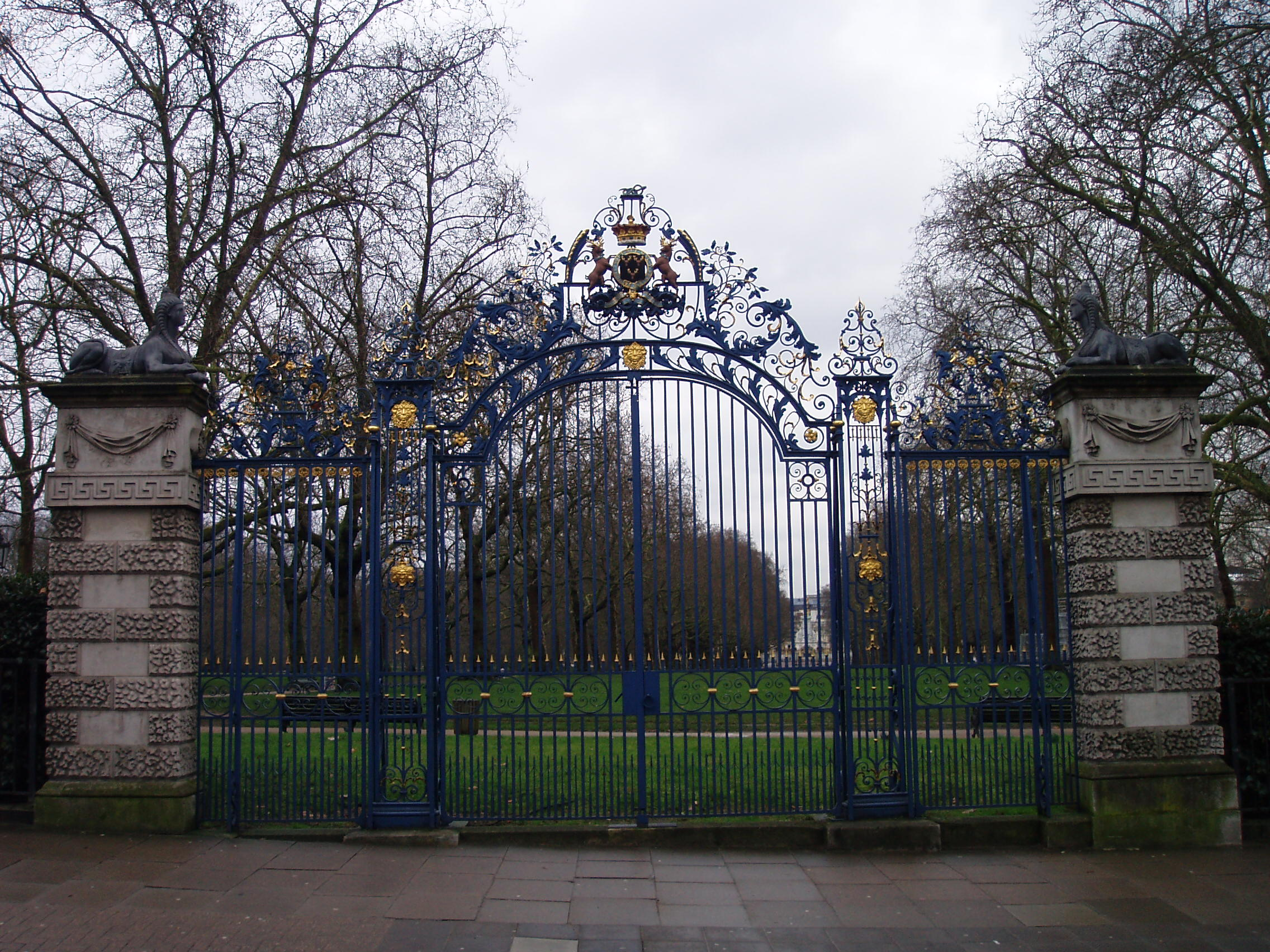 Small set of wrought-iron gates leading from Piccadilly into Green Park, forming the northern end of avenue leading across Green Park to the Canada Gate and Victoria memorial on the other side. 28/02/2010. Possibly the gates were erected as part of the celebrations of Queen Victoria's Diamond Jubilee, but possibly parts of the gate were only put in place by 1914, originating from other locations (such as Devonshire House and Turnham Green). The sphinxes may be by John Cheere or Henry Cheere, and may be originally from Chiswick House. Some useful links: [1], [2], [3], [4], [5], [6].Template:Listed building Englan